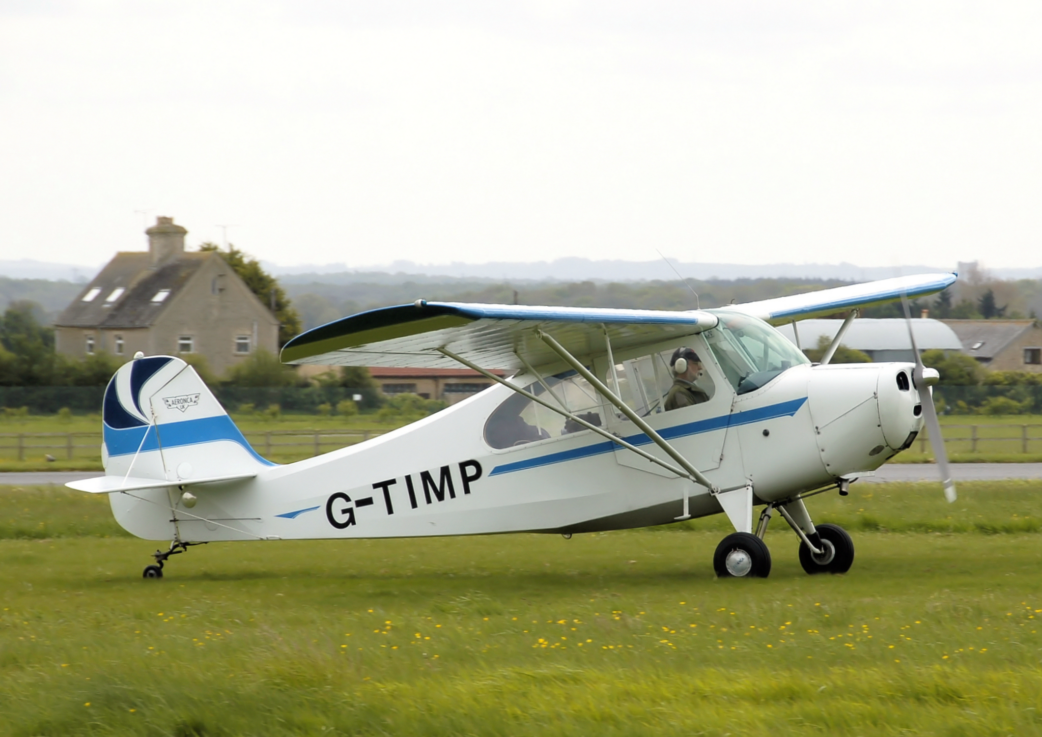 Aeronca 7BCM Champion (G-TIMP), built 1946, at the Great Vintage Flying Weekend (a gathering of vintage light aircraft) at Kemble Airport, Gloucestershire, England. Photographed by Adrian Pingstone in May 2009 and released to the public domain.